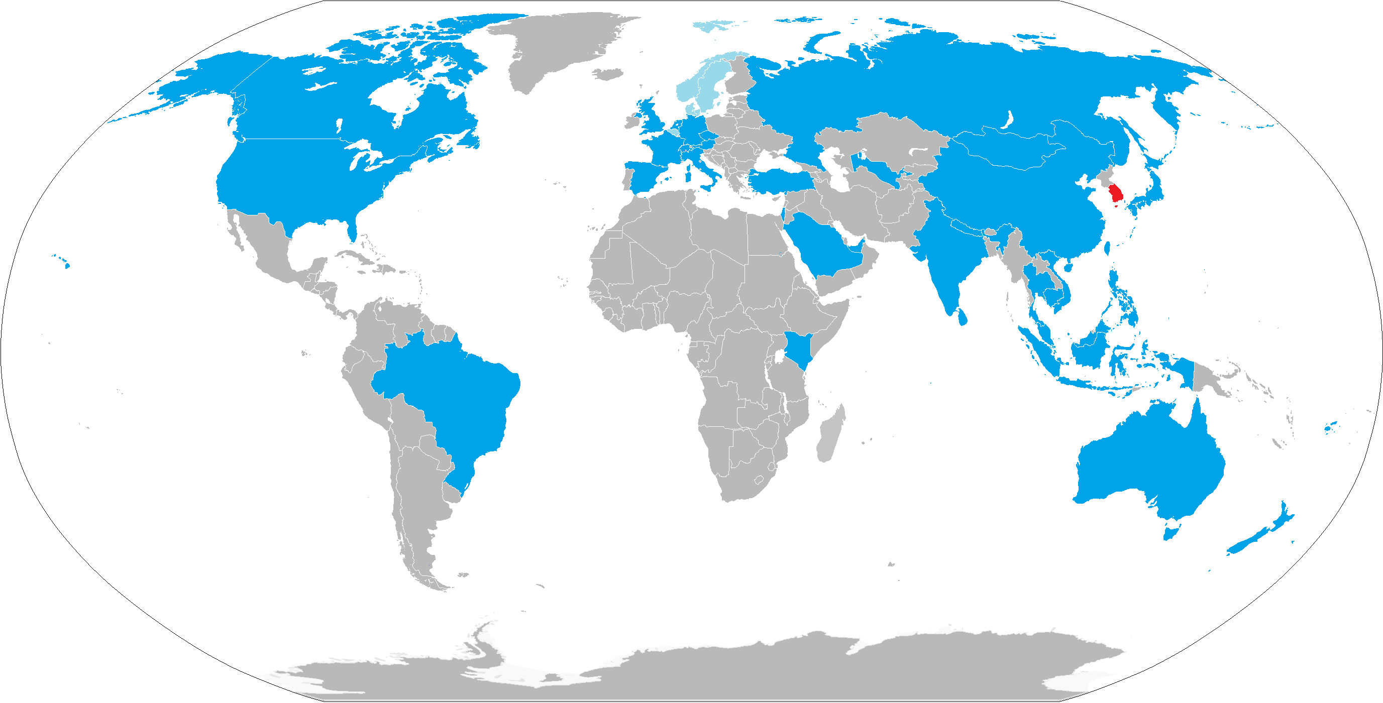 Korean air destinations blue: destinations light blue: cargo only destinations red: south korea